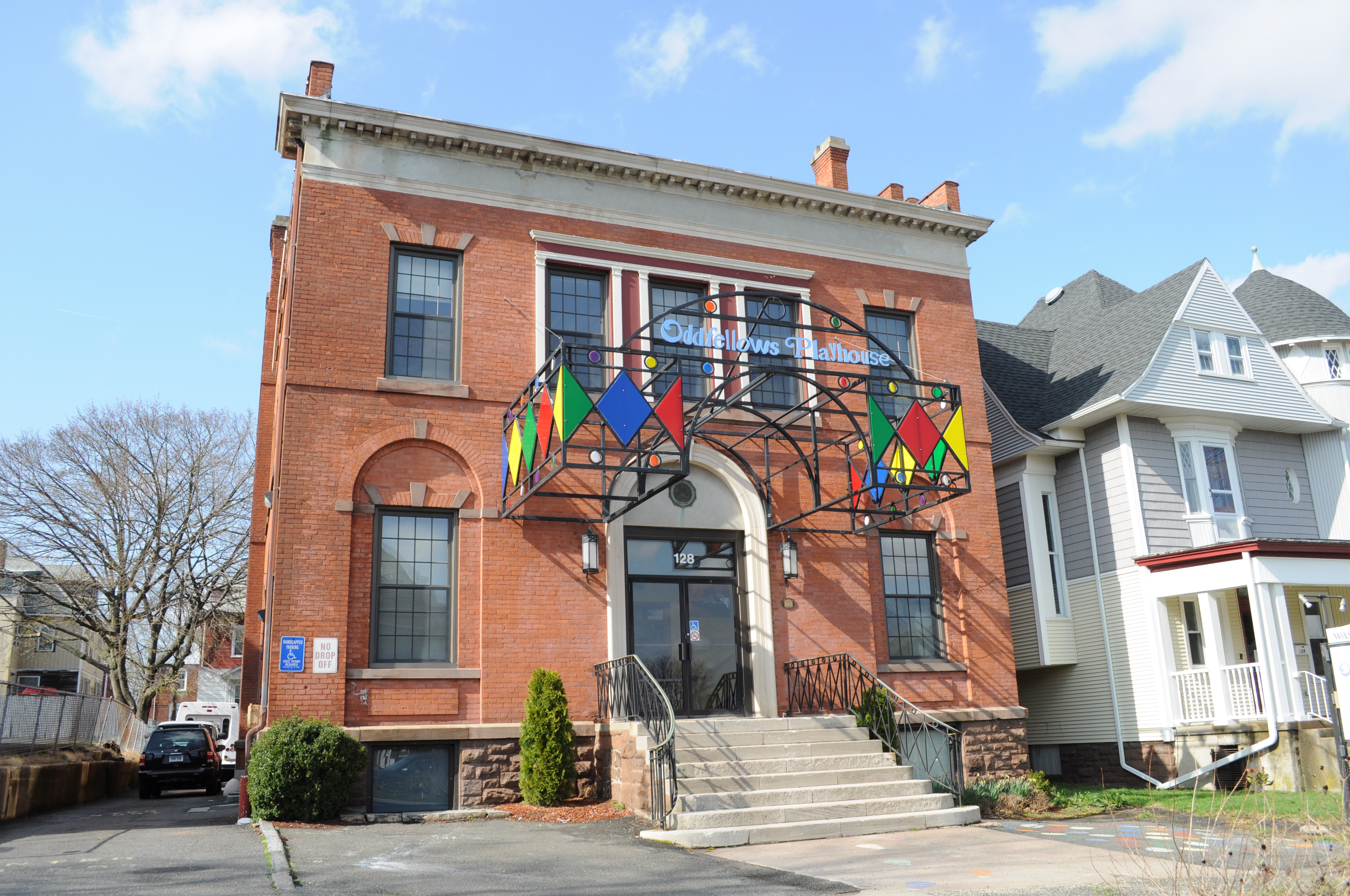 128 Washington Street (Connecticut Route 66), Middletown, Connecticut, USA. Former American Legion Hall, now Oddfellows Playhouse, built 1920. A contributing property of the Washington Street Historical District, which is listed on the National Register of Historic Places.